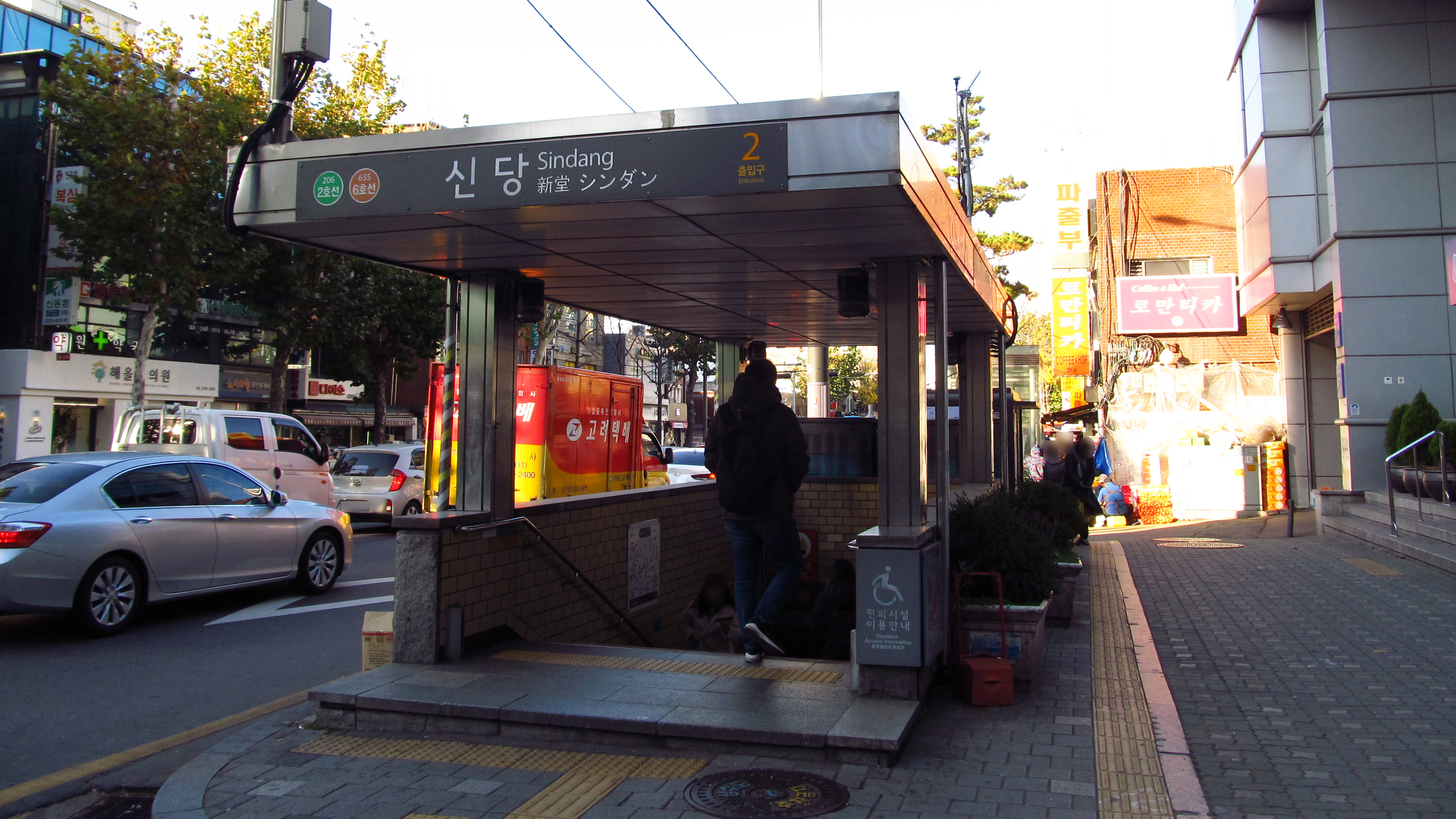 The no.2 entrance to Sindang Station on the Seoul Metro Line2 and Line 6 in Jung-gu, Seoul, Republic of Korea(South Korea)